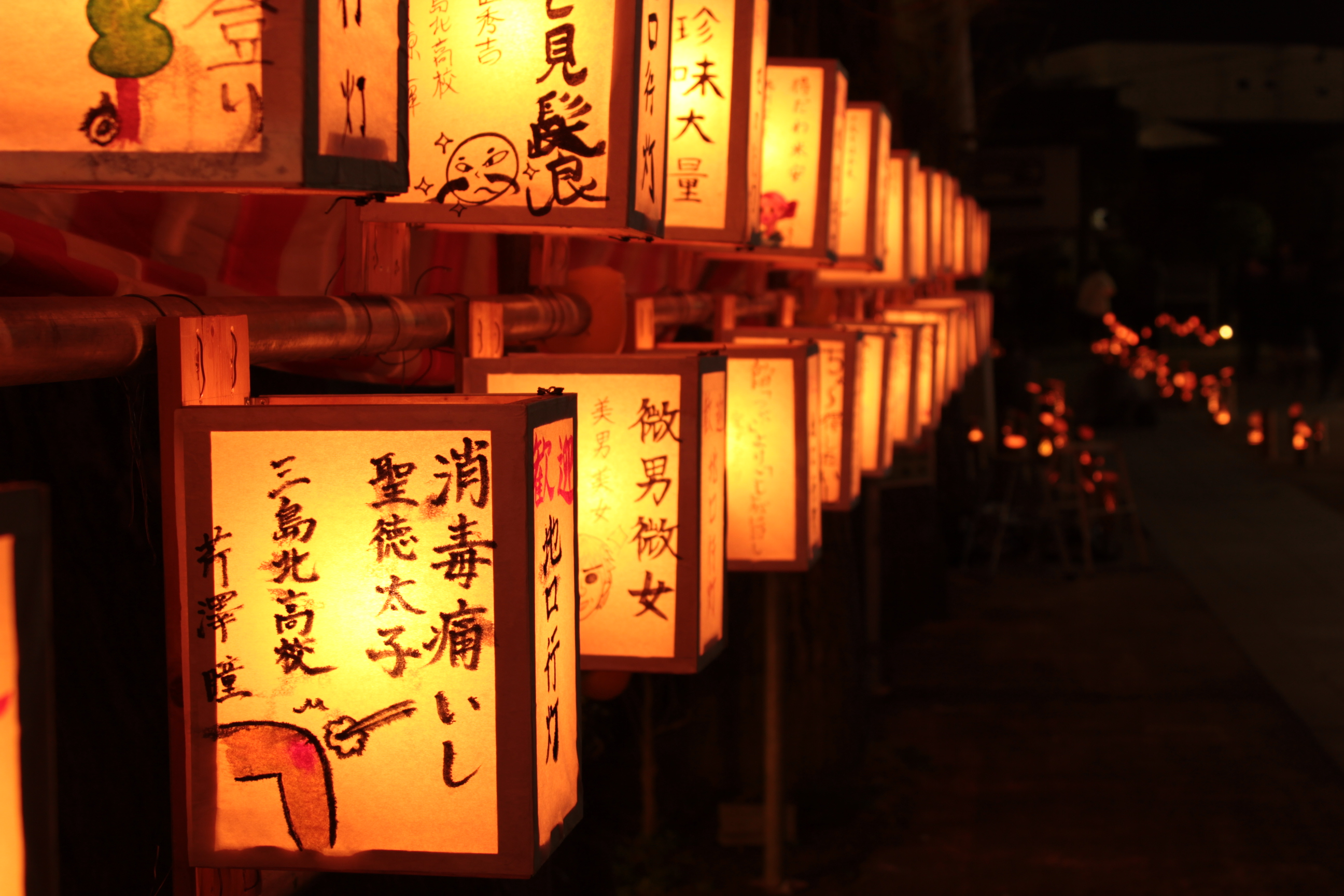 Mishimajuku-jikuchiandon in Mishima, Shizuoka Prefecture, Japan.